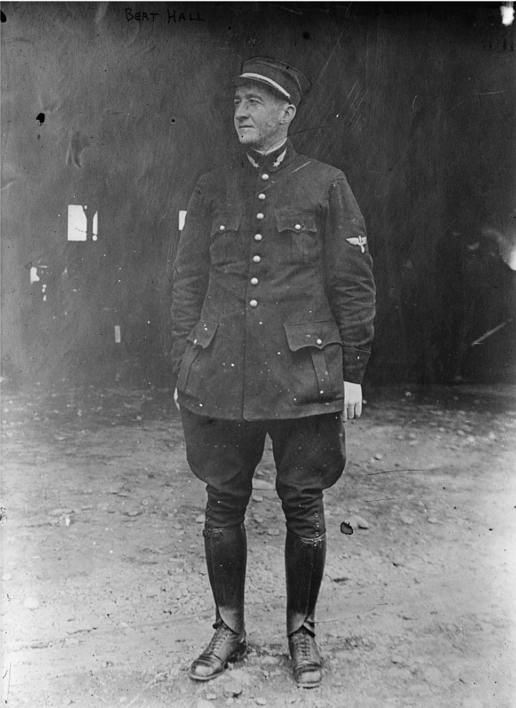 Bert Hall World War I pilot, Lafayette Escadrille.